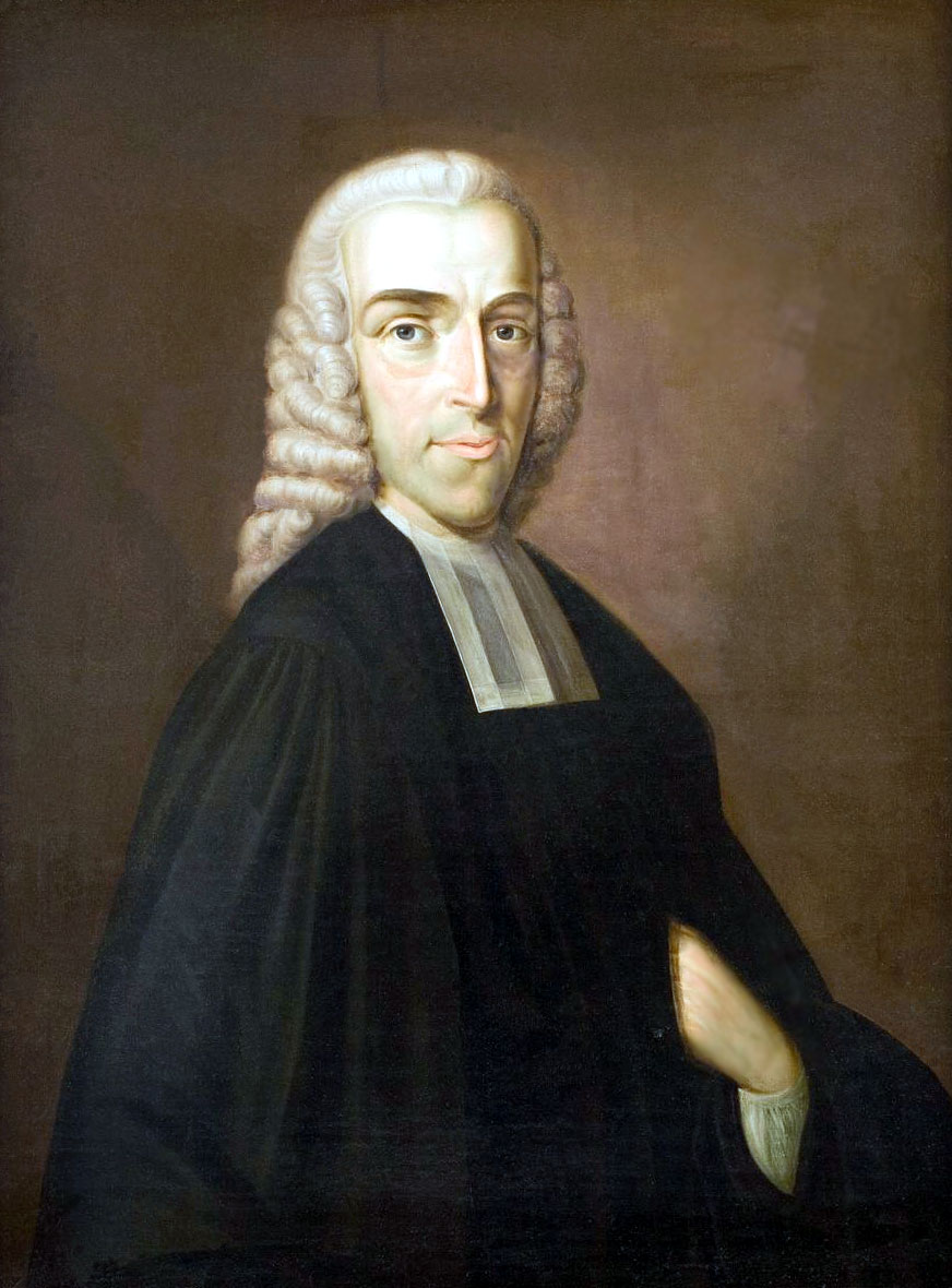 Nicolaas Hoogvliet (1729-1777) Dutch Reformed theologian